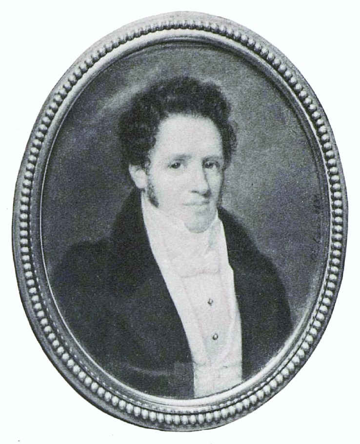 Vasilchikov Nikolay (1799-1864)